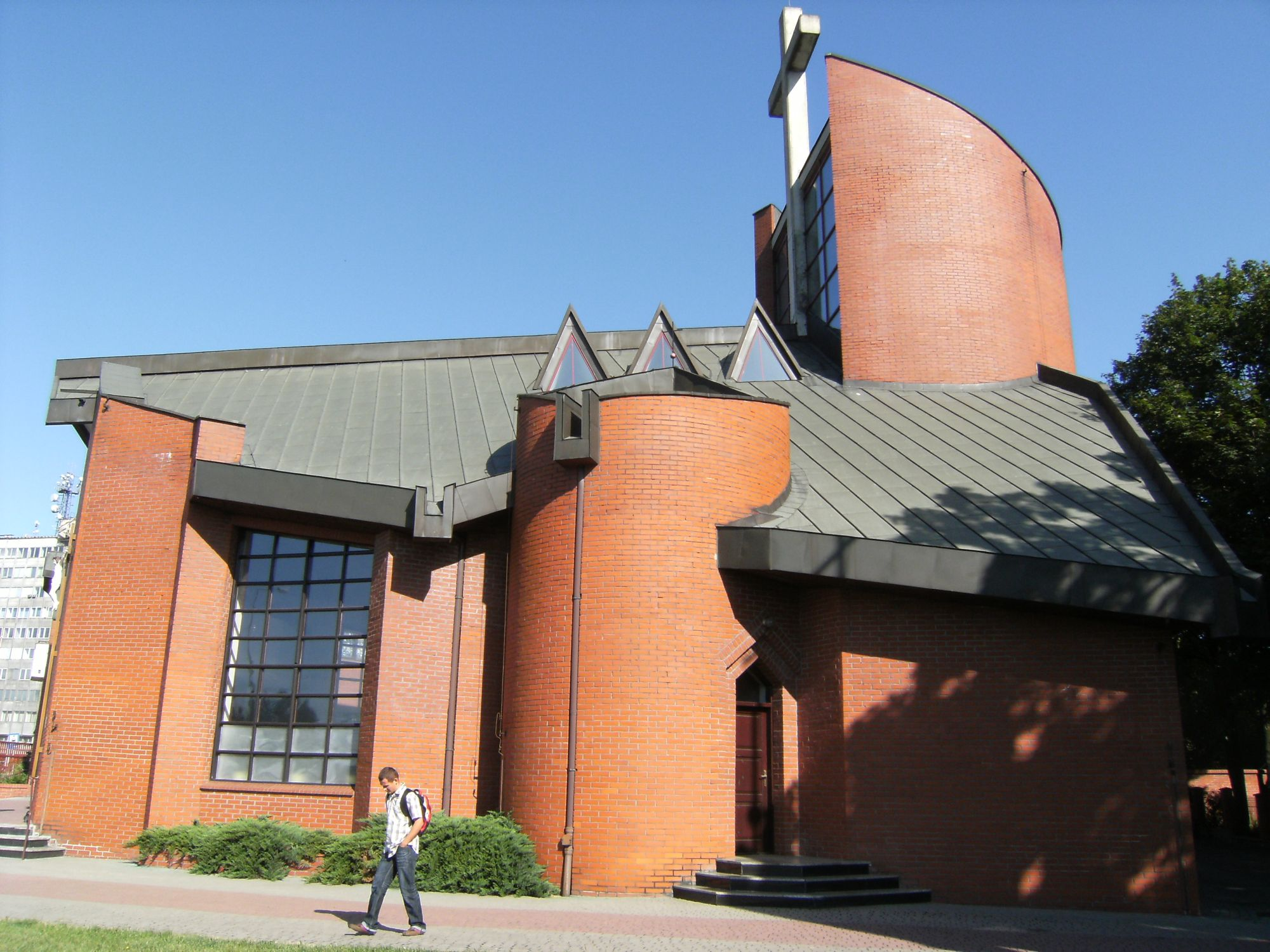 Old Catholic Mariavite Church in Warsaw